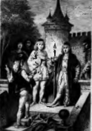 1878 Illustration by A. Bida for Aucassin et Nicolette in french. Bibliography : Alexandre Bida (Translator and Illustrator) (préf. Gaston Paris), Aucassin et Nicolette : chante-fable du douzième siècle, Paris, Hachette et Cie, 1878, In-8°. XXXI-140 p. et 11 pl. (OCLC nº 632457123)